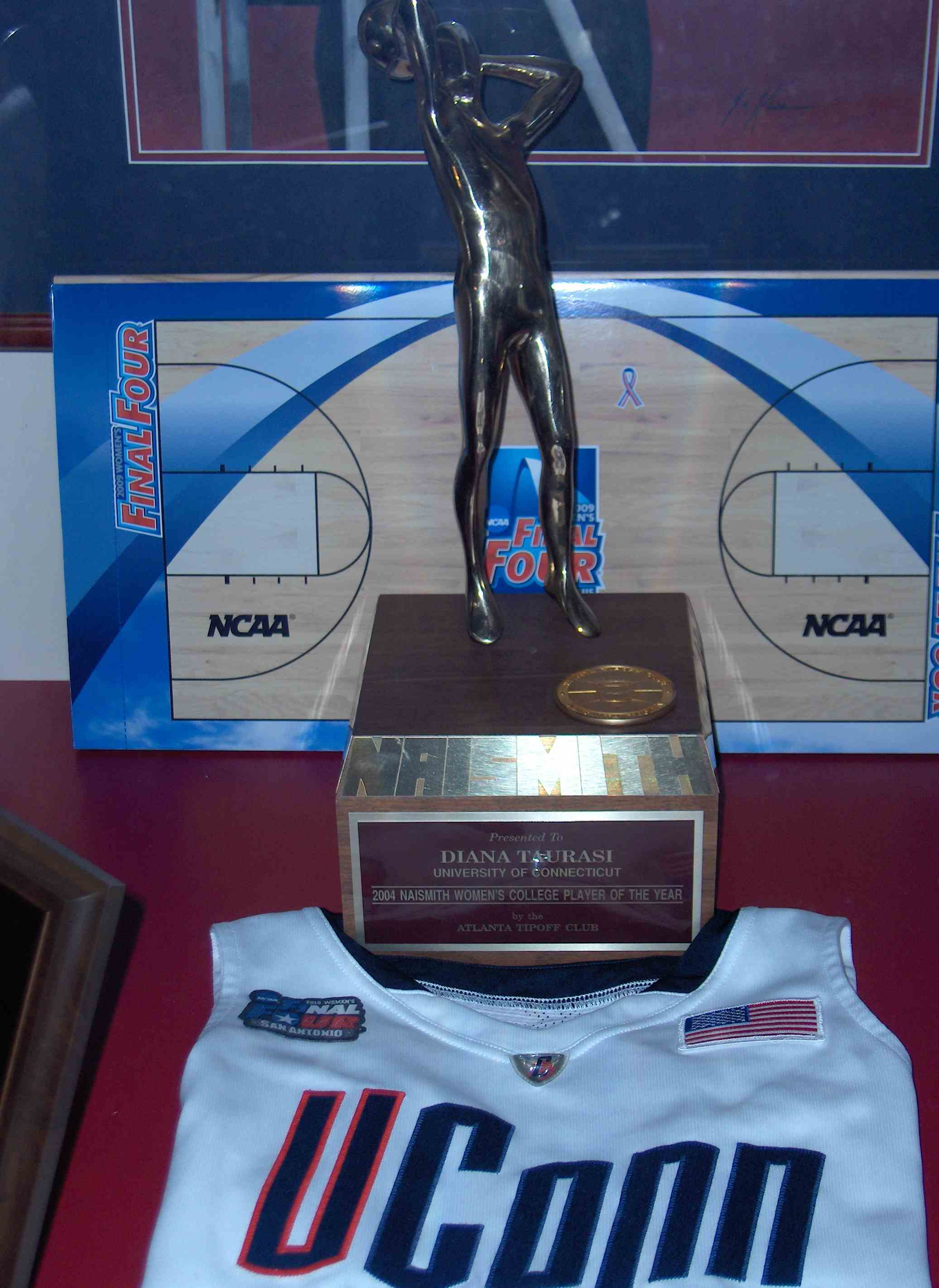 Naismith trophy for Diana Taurasi, awarded in 2004, in Trophy Case at UConn Alumni building on camppus in Storrs CT USA. Also pictured, Taurasi jersey, and replica of Final Four floor.